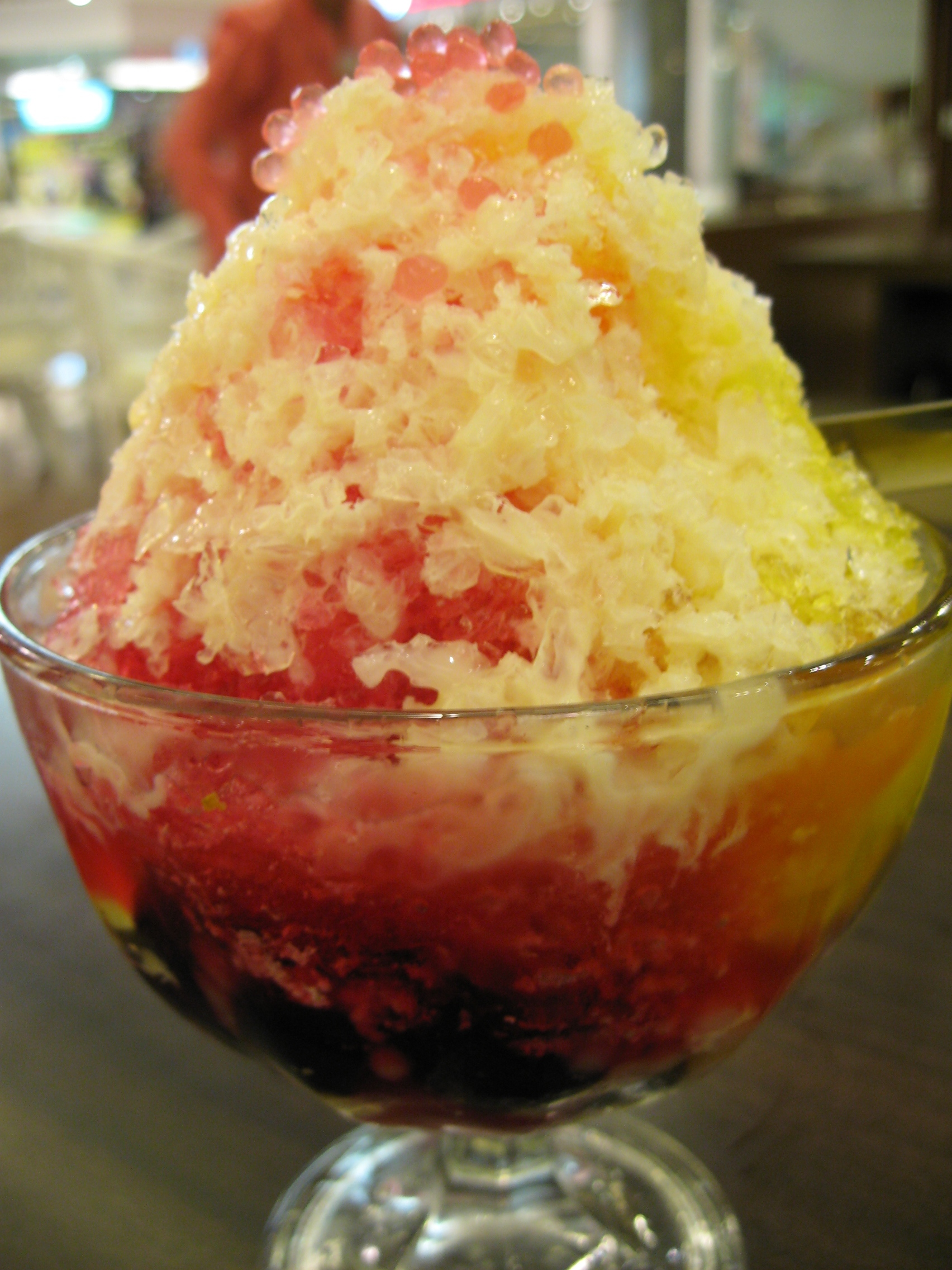 Shanghai Ice, shaved ice with syrup and condensed milk